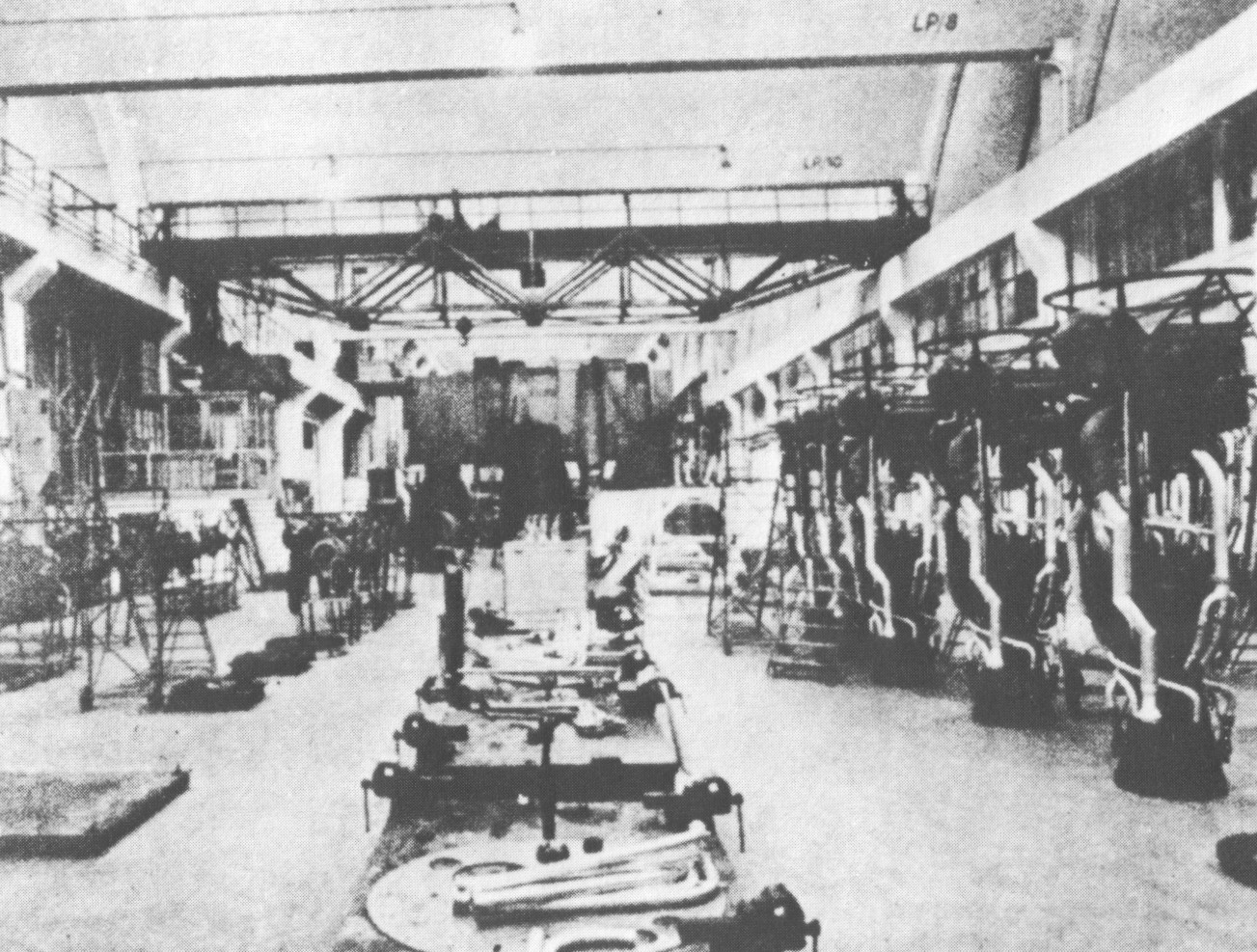 The pilot production plant at Peenemünde, one of three facilities designated in July 1943 for the mass production of A-4s [1] (BOOK CAPTION) OTHER ENGLISH CAPTIONS: At the Peenemünde experimental mass-production plant, a series assembly line for rockets was established for the first time ever.[2] Assembly hall at the HVP Test Facility South in 1944, with A4 rocket powerplants (source: German Museum, Munich)[3] Workbenches, spare V-2 engines and overhead hoists fill the spacious Peenemünde engine plant where more than 500 V-2 rockets were assembled.[4]